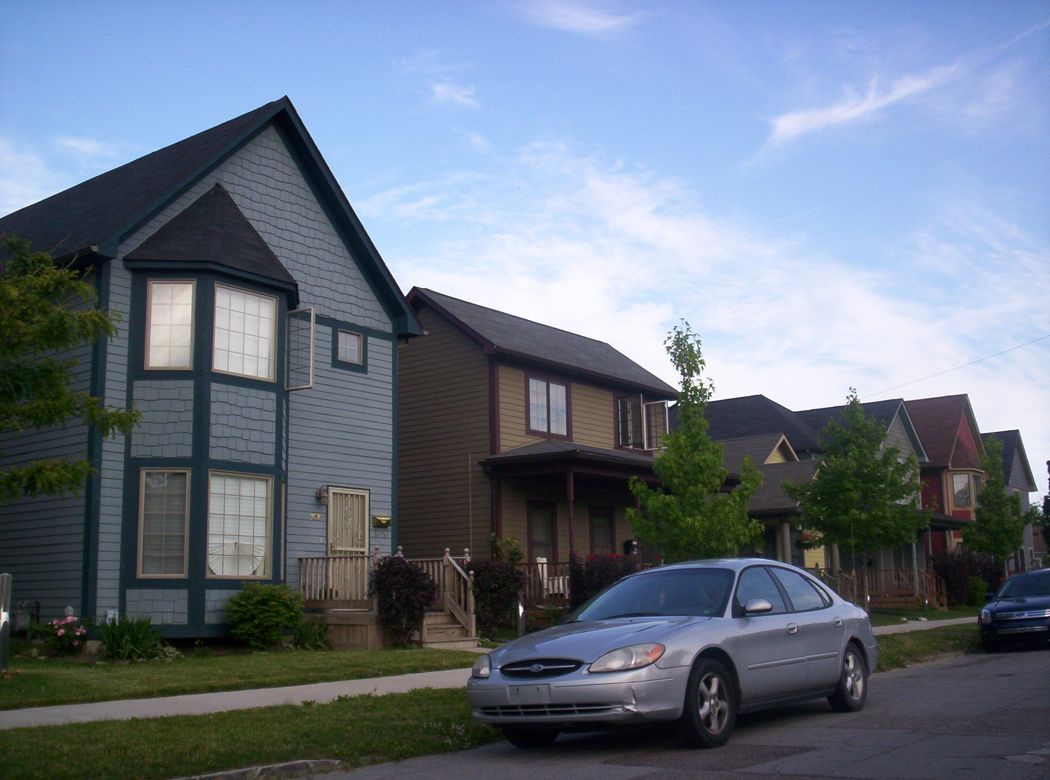 Example of new housing found throughout the neighborhood in the North Corktown neighborhood